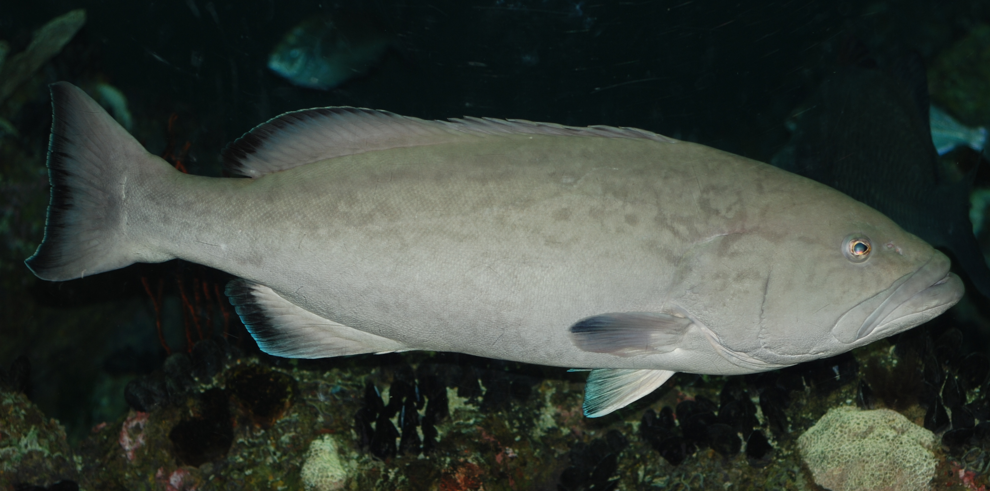 Mycteroperca microlepis in National Aquarium in Baltimore